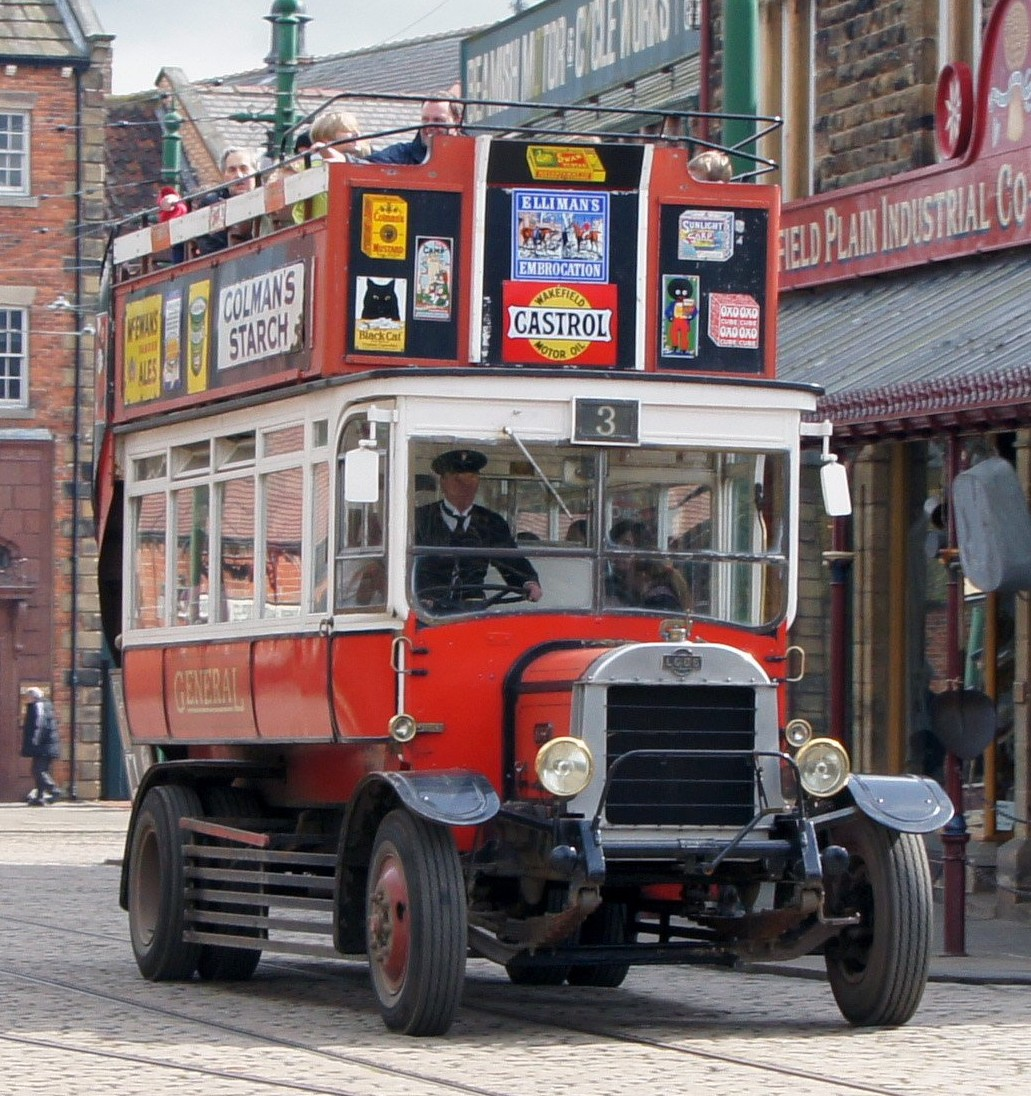 Beamish Museum B-Type replica bus B1349 (reg. DET 720D) at Beamish Museum, County Durham, England. It's seen here westbound on main street in the Town, passing the Co-Op general store.